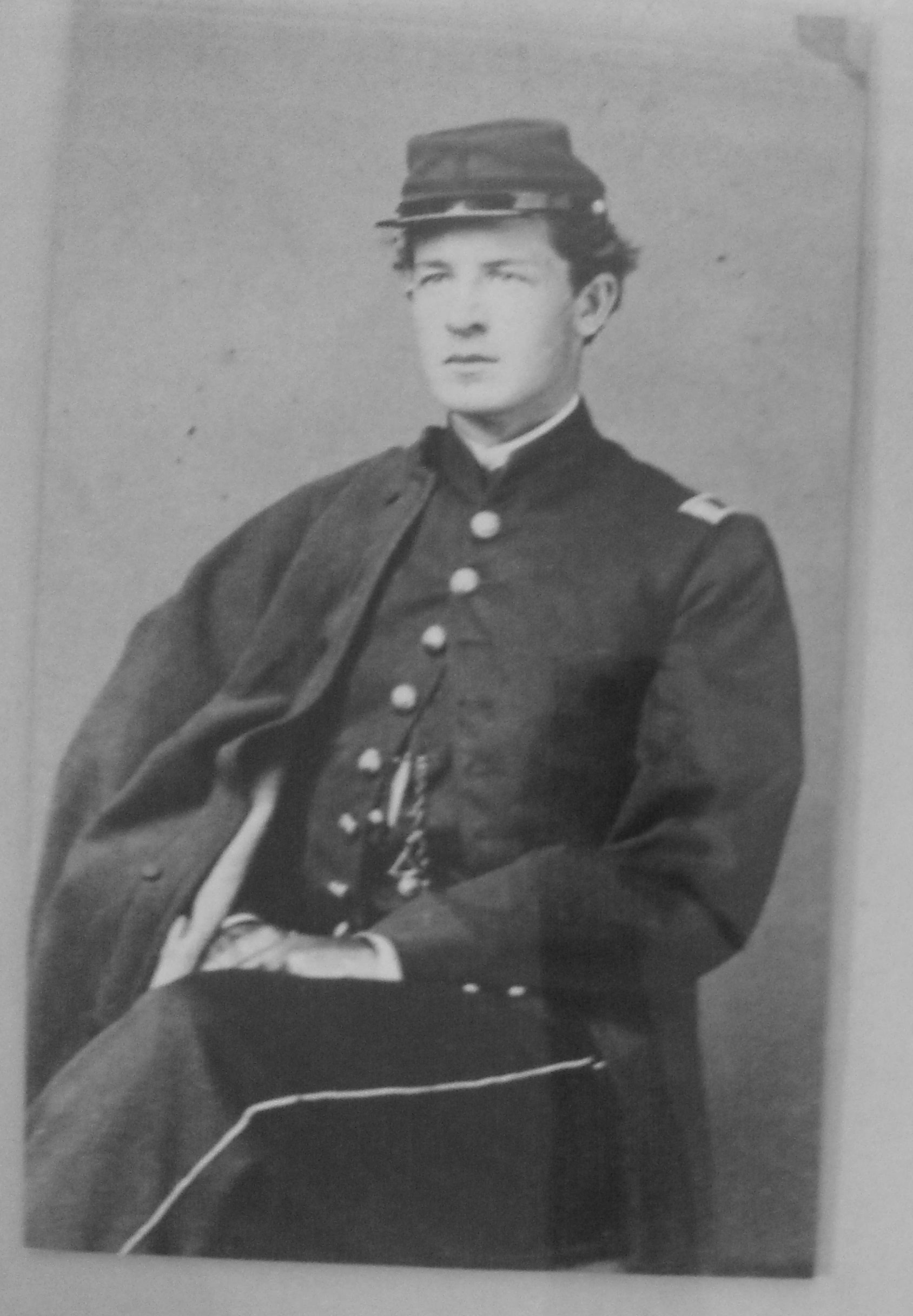 a photograph of civil war soldier John James McCook (1845-1911) displayed at the Daniel McCook House in Carrollton, Ohio.